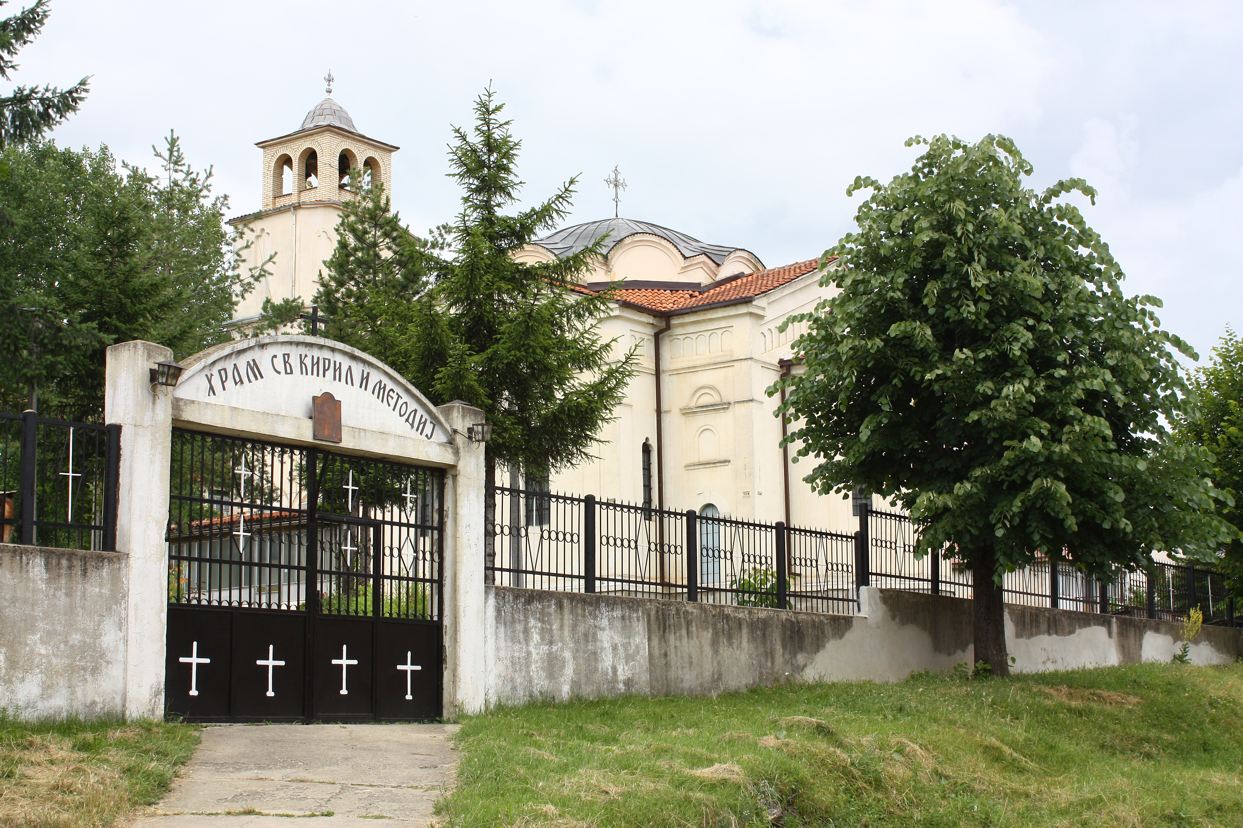 Sts. Cyril and Methodius Church in Resen, Macedonia